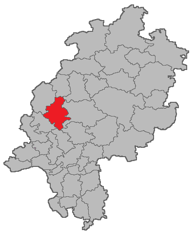 Map of the district court Wetzlar in Hesse